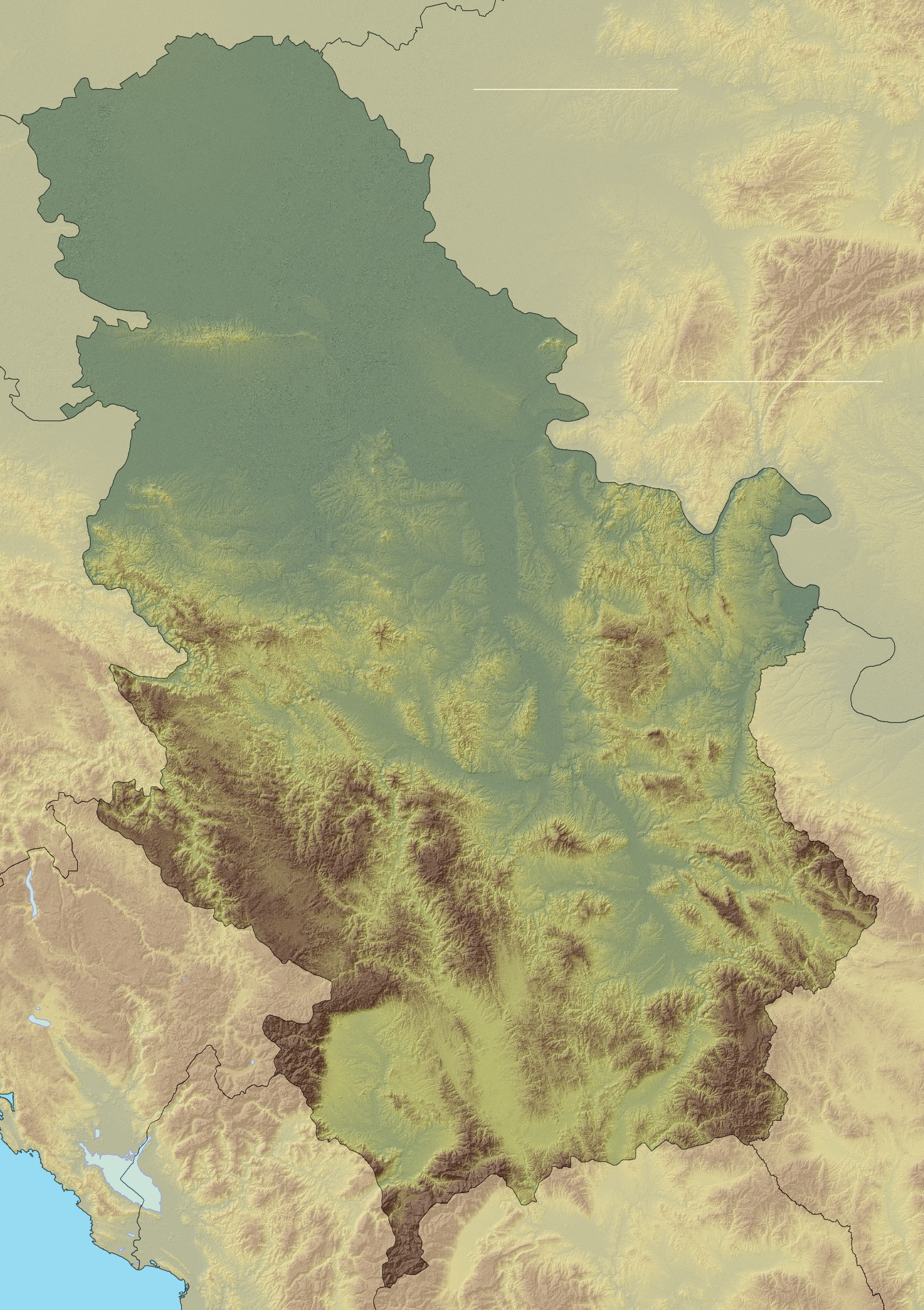 Relief map of Serbia. Including Kosovo. World Mercator projection N: 46.3° N S: 41.7° N W: 18.7° E E: 23.2° E